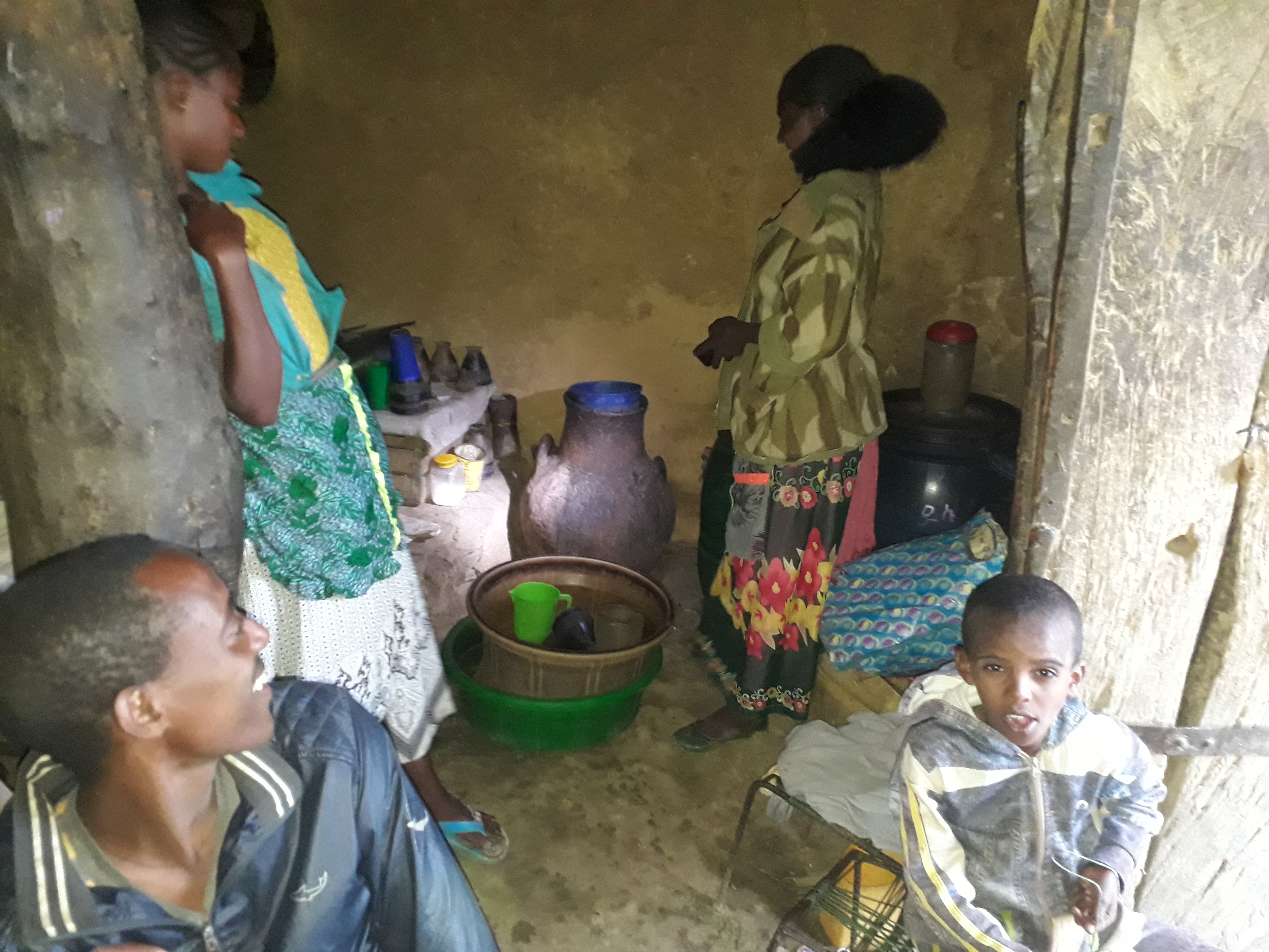 Setup of siwa serving in Werqamba, Tembien, Ethiopia